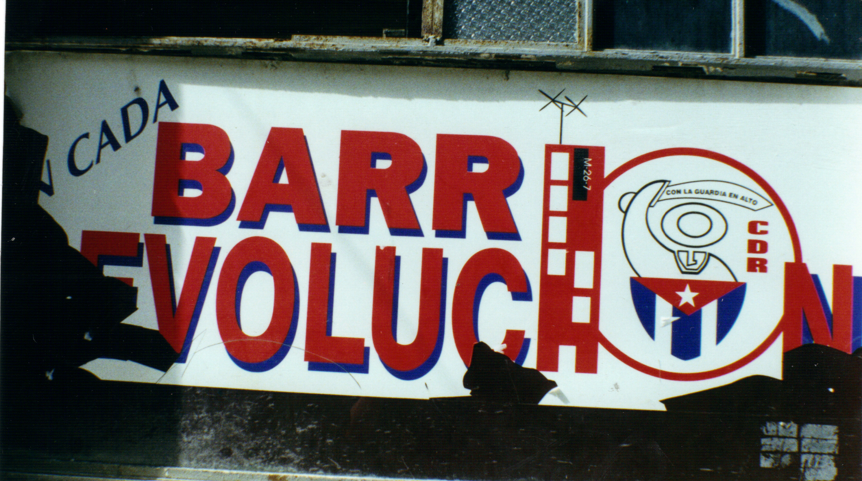 I"n each city quarter Revolution": Proaganda billboard in Old Havana, 2002. (CDR: Committes for the Defense of the Revolution): Scan frommy photo album of October 2002